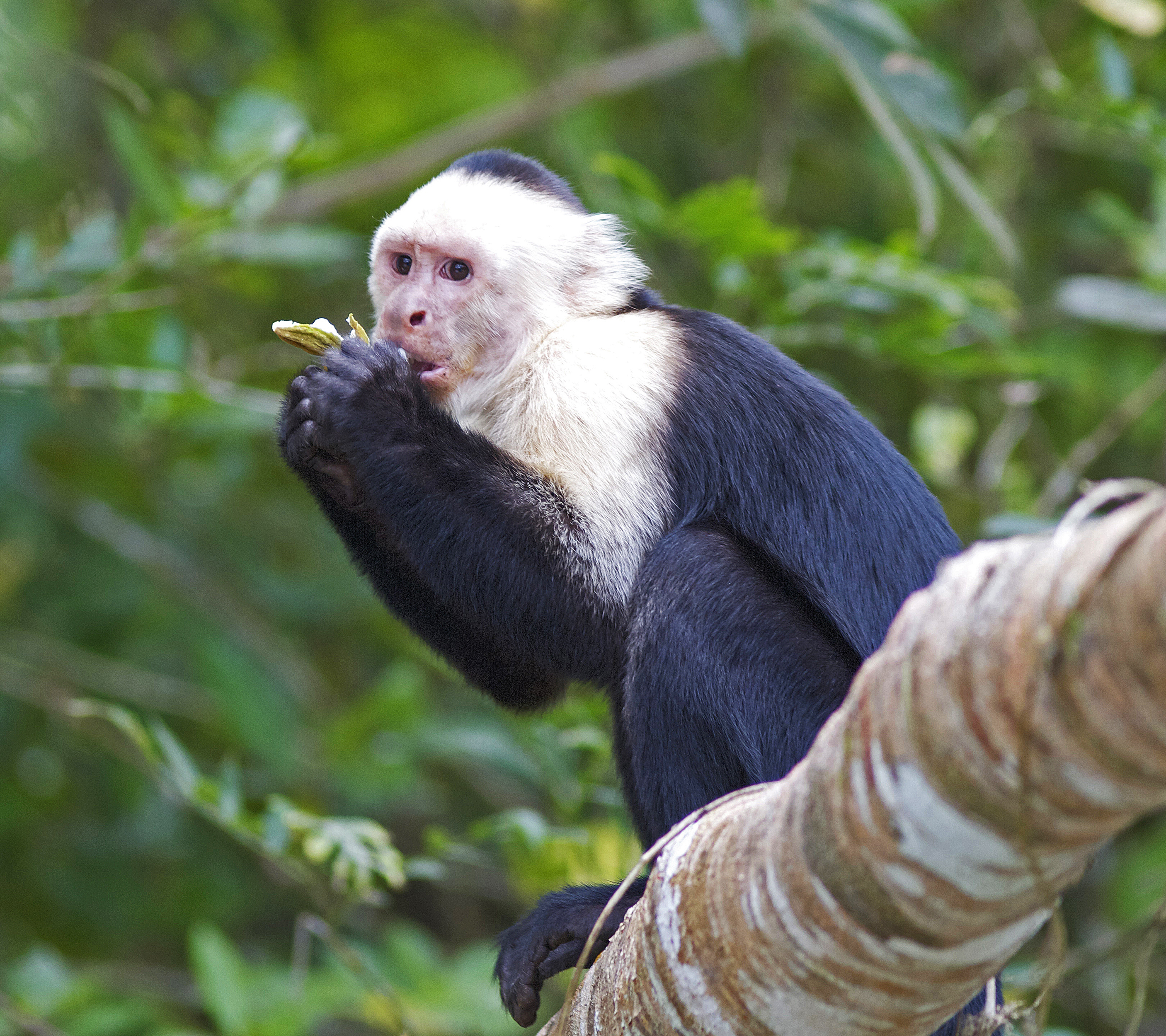 White-faced Capuchin photo taken on the Rio Frio River, Costa Rica.